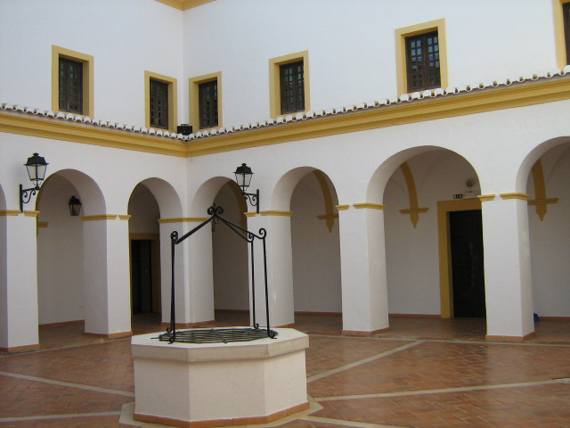 Inner courtyard/cloister of the Convent of São José in Lagoa, Algarve, Portugal.